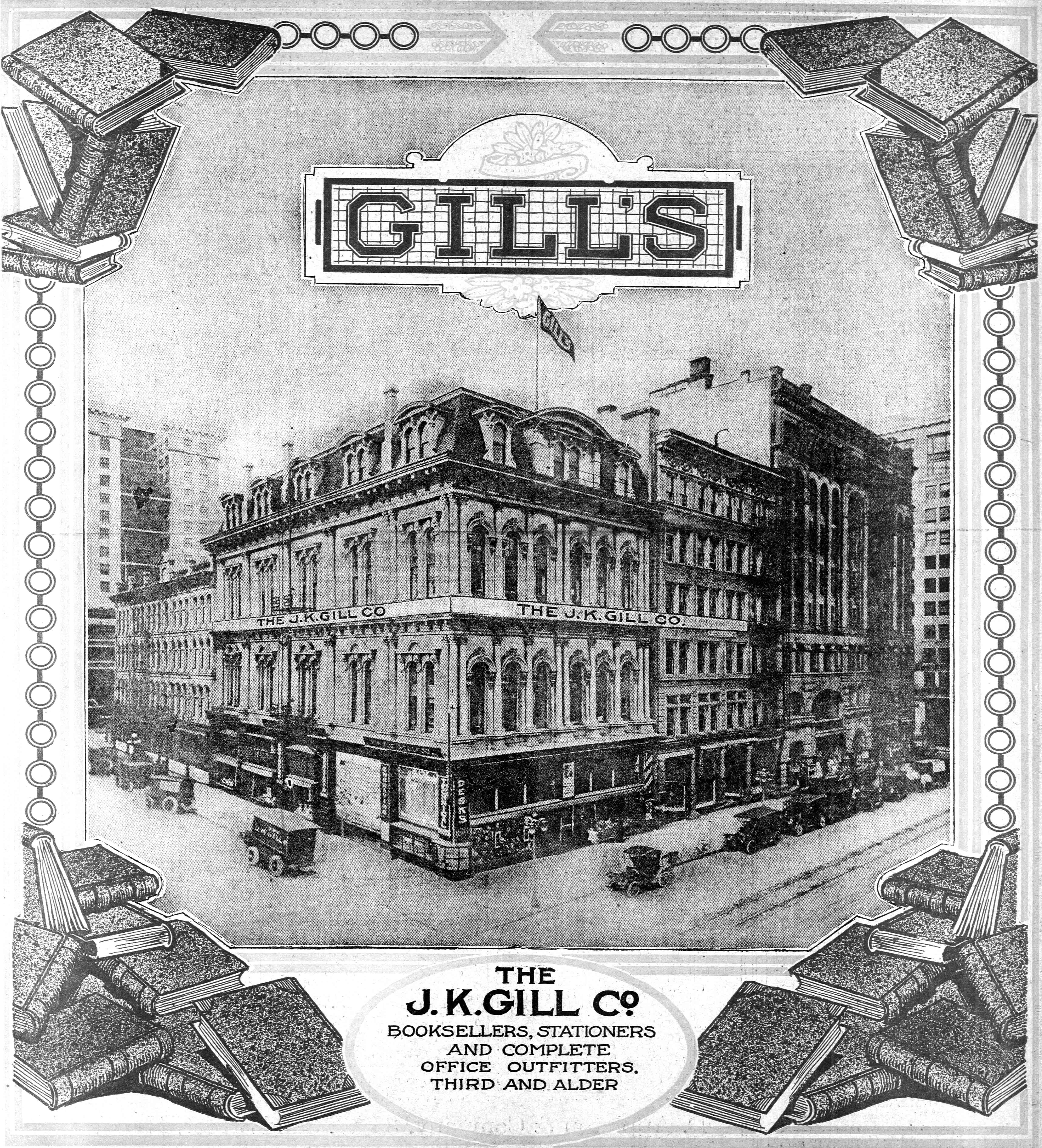 An advertisement for the J. K. Gill Company in Portland, Oregon, showing the store at SW Third and Alder. The store was located in a former Masonic Temple, and within ten years of this image the store moved to SW Fifth and Stark, and the building was demolished. On this site the Loyalty Building was later constructed in 1928. Two doors down from the store is the Dekum Building at the corner of SW Third and Washington. The Dekum Building was constructed by Frank Dekum, father-in-law of Joseph K. Gill.